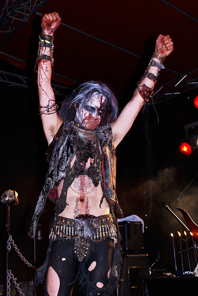 Watain live at Under The Black Sun Festival 2007